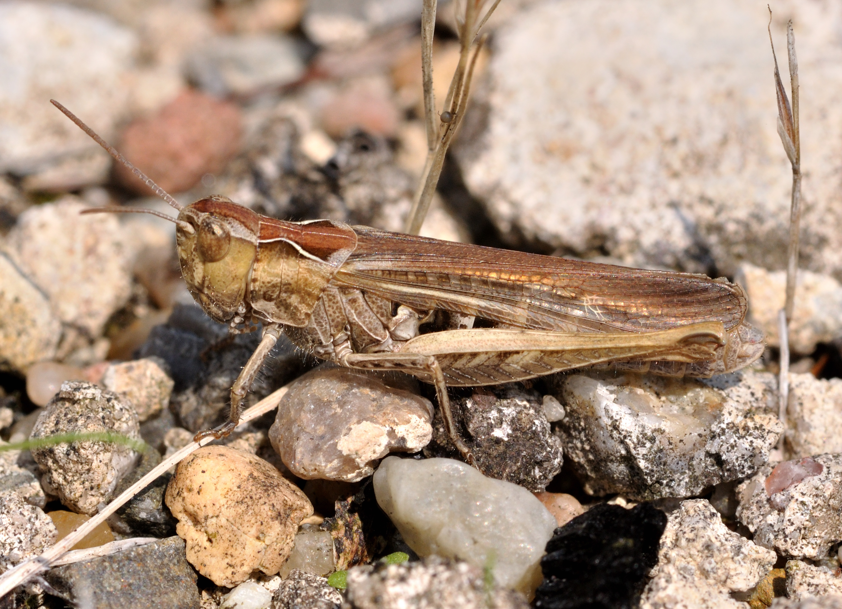 Female Field Grasshopper (Chorthippus apricarius) near the old airstrip, Frankfurt, Germany.